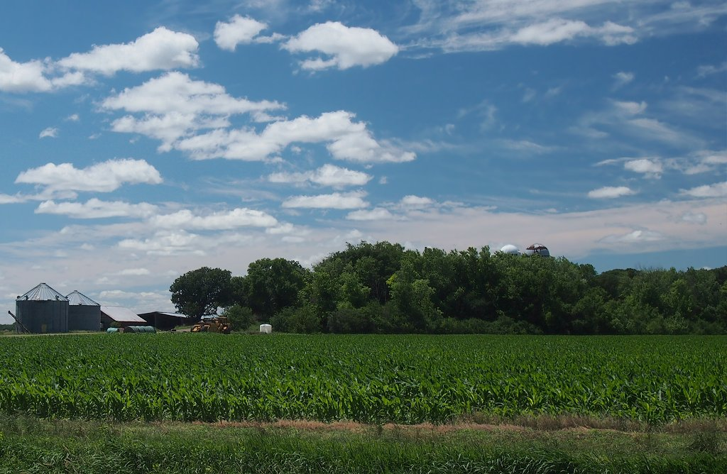 View west from 600th Avenue, Mountain Lake Township, Minnesota, USA.